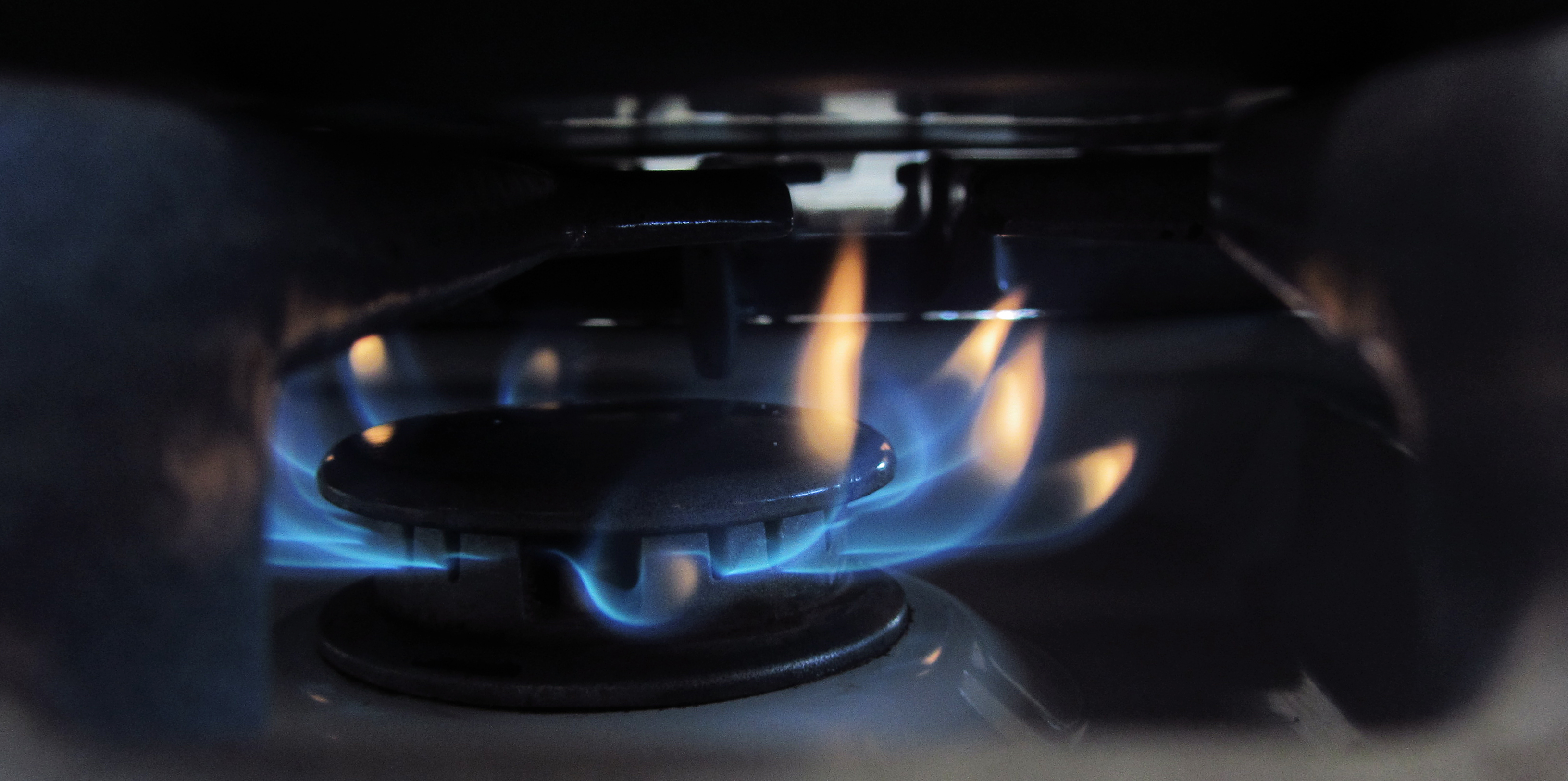 gas burner flame